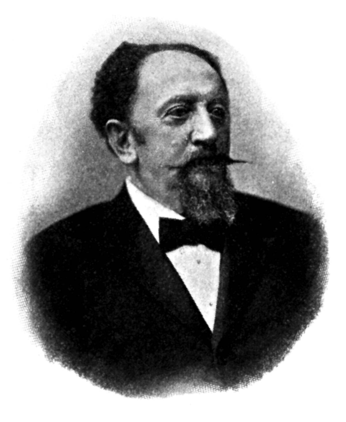 Professor Karl Stoerk